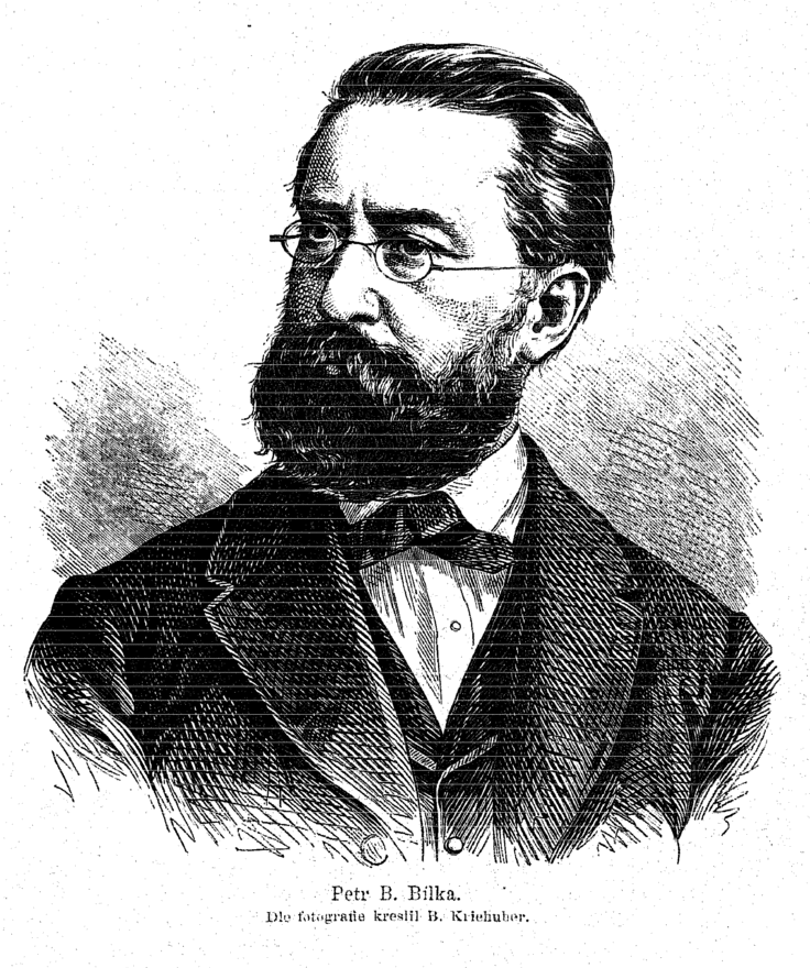 Portrait of Petr Bílka (1820-1881), Czech-speaking teacher from Moravia, director of an educational institution in Wien-Josefstadt 1850-1876.